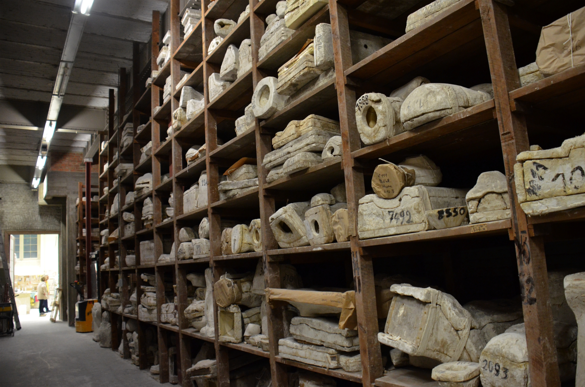 This is a file created at the museum: Jubilee Park Museum in Brussels